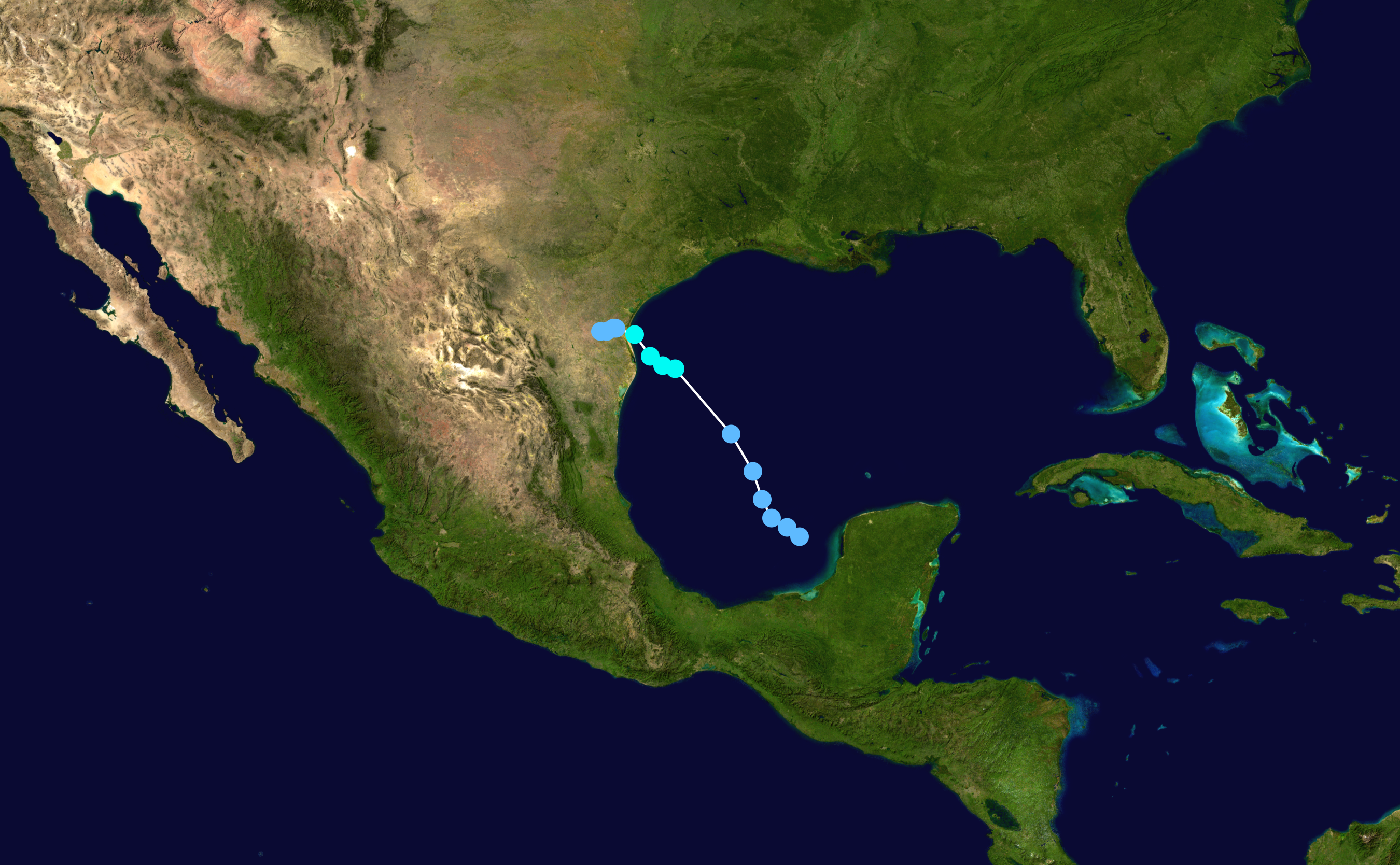 Track map of Tropical Storm Arlene of the 1993 Atlantic hurricane season. The points show the location of the storm at 6-hour intervals. The colour represents the storm's maximum sustained wind speeds as classified in the Saffir–Simpson scale (see below), and the shape of the data points represent the nature of the storm, according to the legend below. Saffir–Simpson scale Tropical depression≤38 mph≤62 km/h Category 3111–129 mph178–208 km/h Tropical storm39–73 mph63–118 km/h Category 4130–156 mph209–251 km/h Category 174–95 mph119–153 km/h Category 5≥157 mph≥252 km/h Category 296–110 mph154–177 km/h Unknown Storm type Tropical cyclone Subtropical cyclone Extratropical cyclone / Remnant low / Tropical disturbance / Monsoon depression